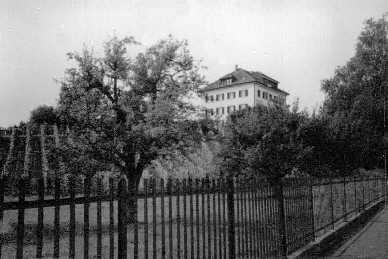 Bürgli